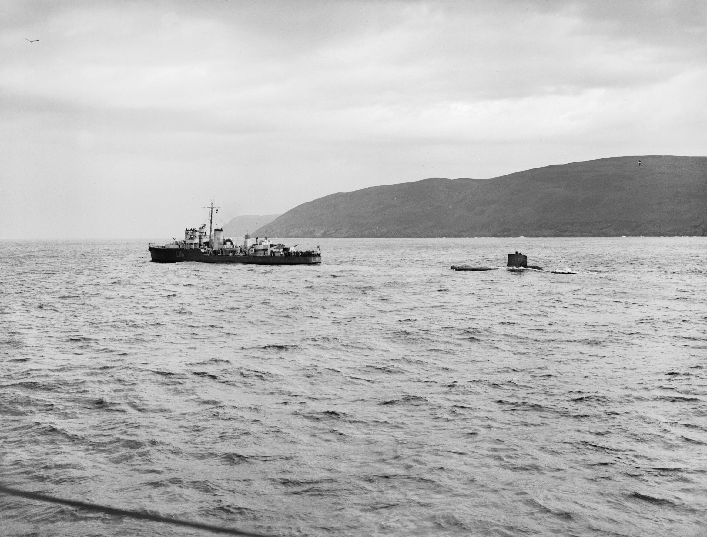 The Polish Navy during the Second World War The Polish Navy destroyer ORP Krakowiak towing German Type XXIII U-boat U-2337 out to sea for scuttling on 28 November 1945 during the Operation Deadlight.